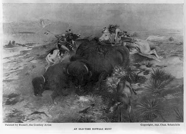 TITLE: An old-time buffalo hunt CALL NUMBER: Illus. in SK1.F45 [General Collections] REPRODUCTION NUMBER: LC-USZ62-86381 (b&w film copy neg.) RIGHTS INFORMATION: No known restrictions on publication. SUMMARY: 2 Indians on horseback bow and arrows and spear killing buffalo. MEDIUM: 1 photomechanical print : halftone. CREATED/PUBLISHED: c1898. NOTES: Halftone repro. of painting by Charles M. Russell. Copyrighted by Charles Schatzlein. Illus. in: Field and Stream, 1898 May, oppos. p. 65. No ref. copy. This record contains unverified data from caption card. Caption card tracings: Animals--Bison; Hunting; Indians; Pub. REPOSITORY: Library of Congress Prints and Photographs Division Washington, D.C. 20540 USA